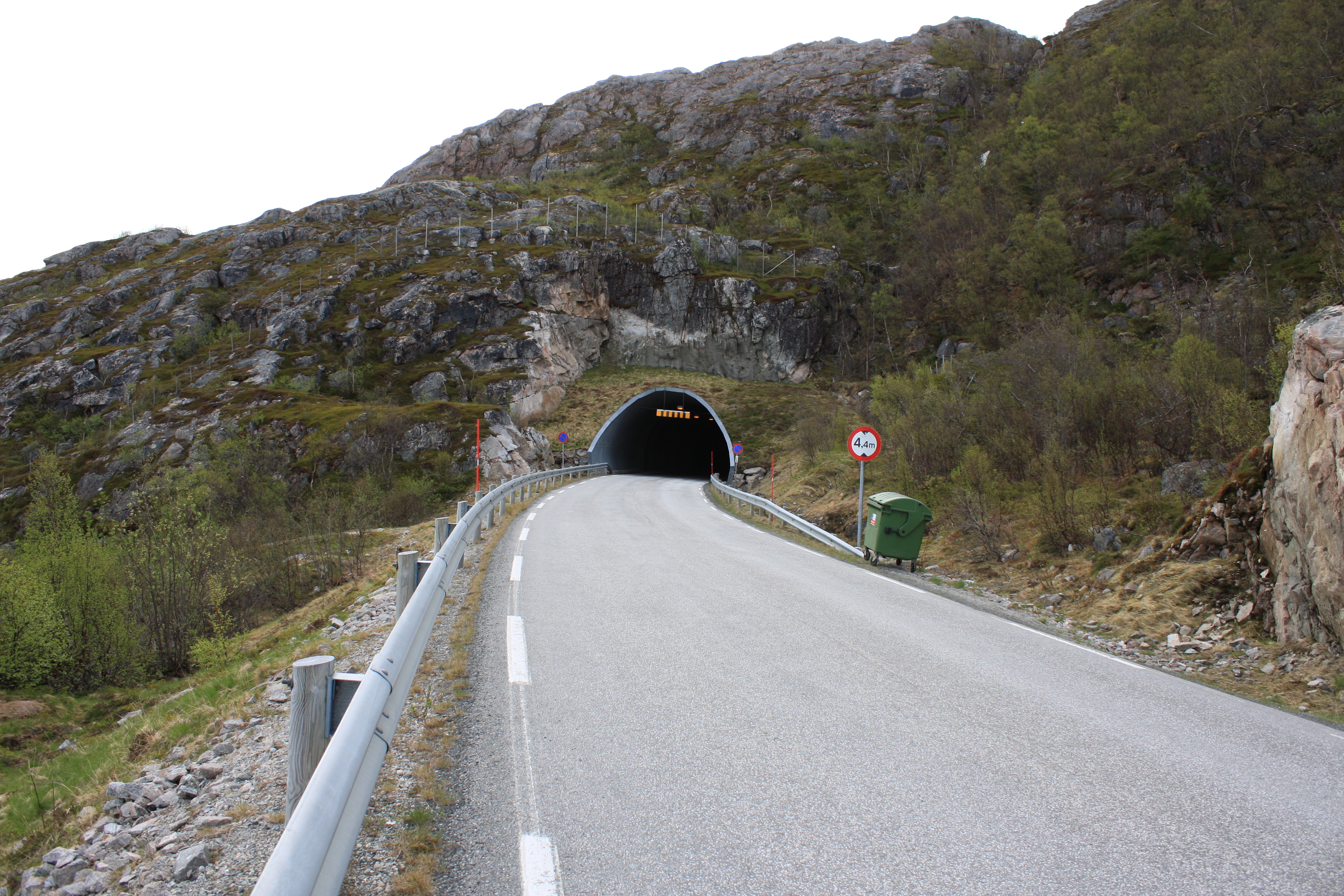 The west entrance to the road tunnel Oterviktunnelen on riksvei 862 (Norwegian national road 862), Norway. The dumpster is for people barbecuing on the beach to the left outside of the picture.